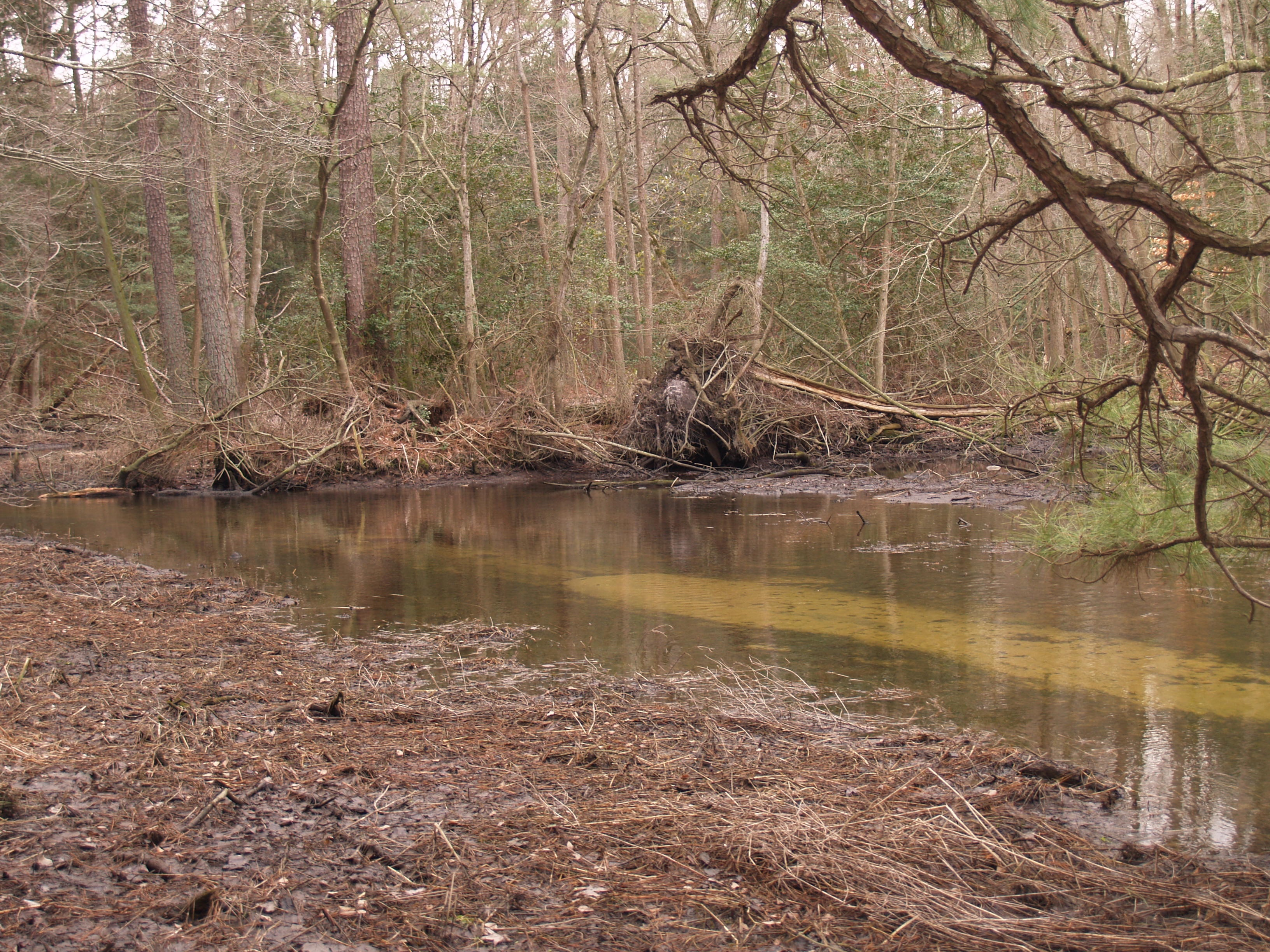 Chapel Branch from the Chapel Branch Nature Preserve of the Nanticoke River Watershed Conservancy. The image was taken in 2008.